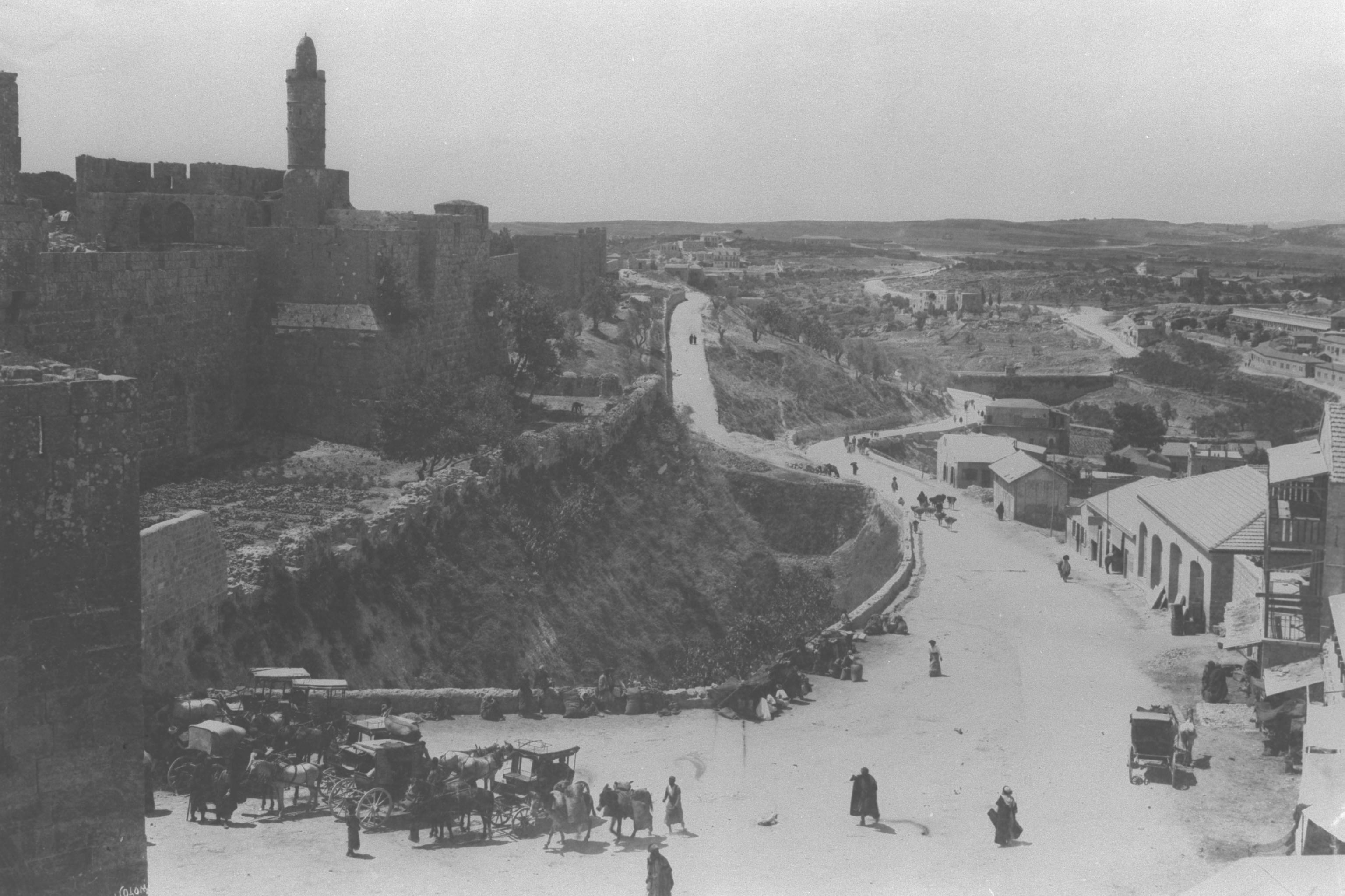 GENERAL VIEW OF THE WALL AROUND THE OLD CITY OF JERUSALEM & DAVID'S TOWER FROM THE JAFFA GATE, FACING SOUTH. (COURTESY OF AMERICAN COLONY) חומות העיר העתיקה בירושלים ומגדל דוד.